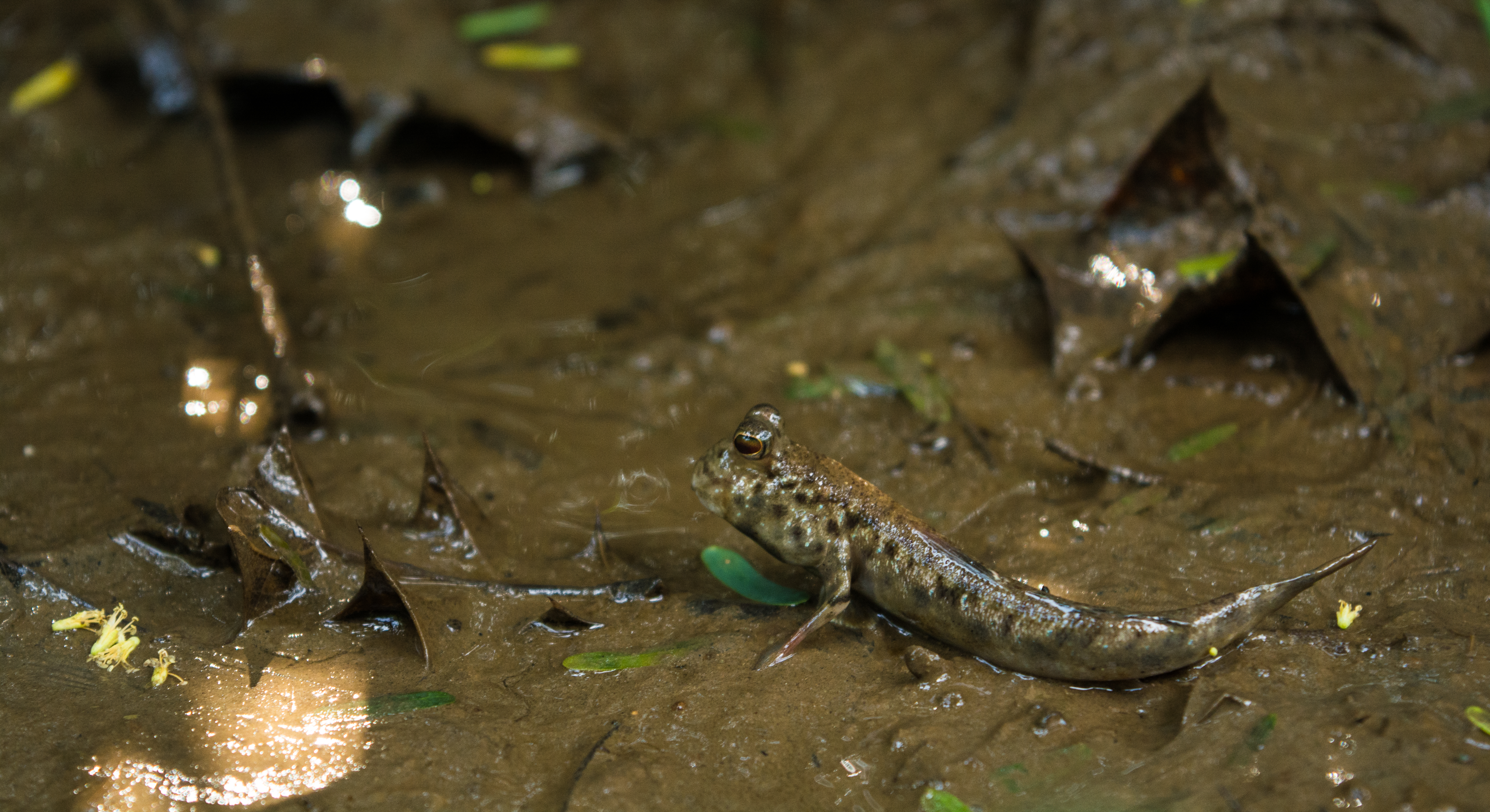 Mudskipper trying to catch prey in mangroves of Godavari river.